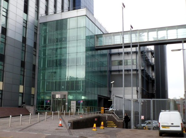 Entrance to Stadium House, Park Street and the skyway which links to Park Gate, formerly Cardiff's Head Post Office in Westgate Street, Cardiff, Wales